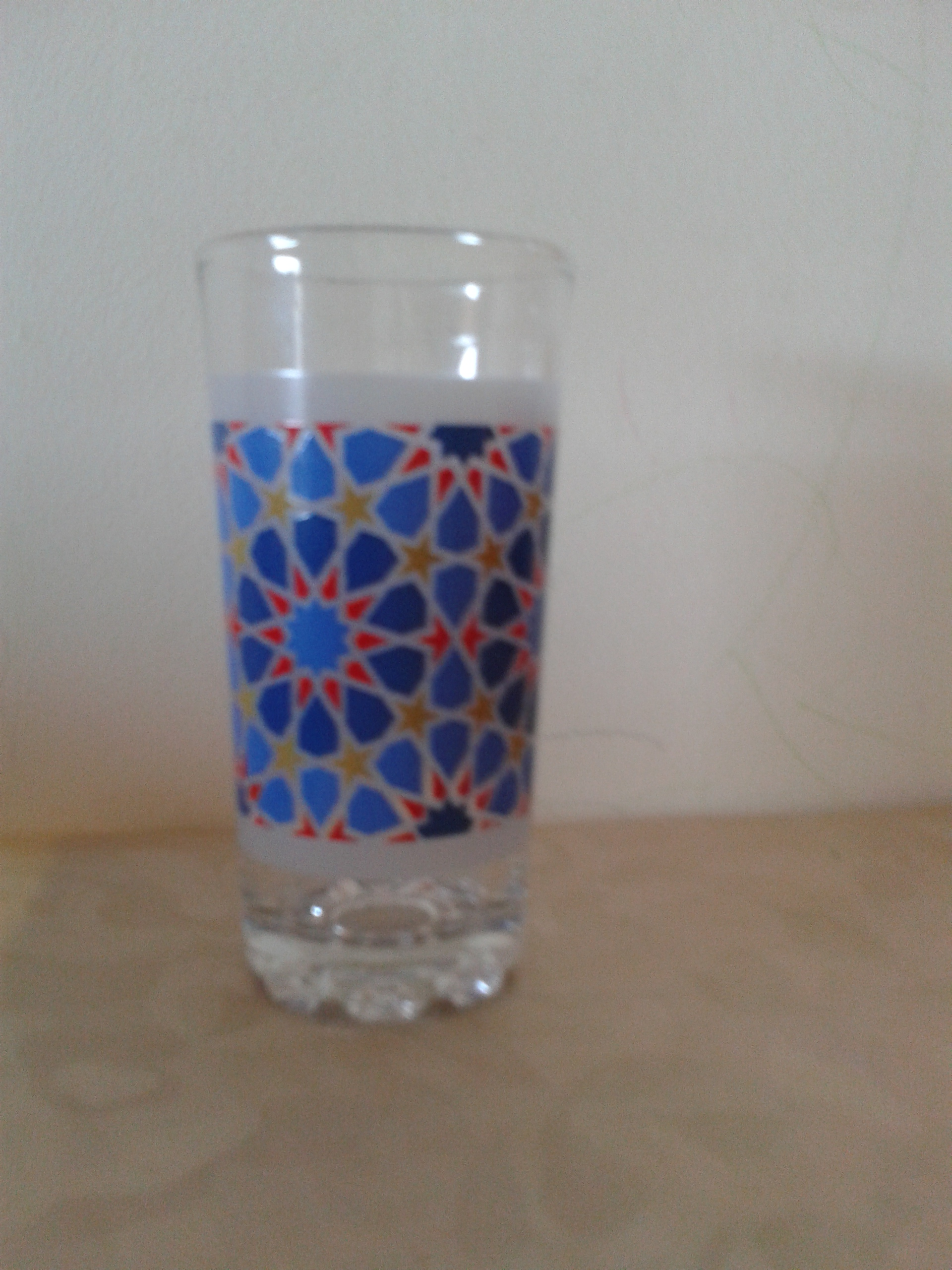 Glass cup